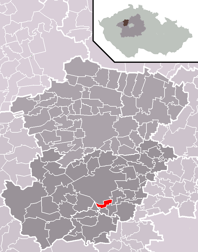 Location of Velké Přítočno municipality within Kladno District and administrative area of Kladno as a Municipality with Extended Competence.